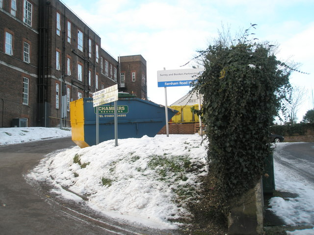 Lingering snow at Farnham Road Hospital